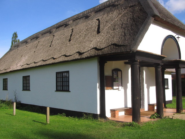 Ardeley Village Hall This is where the local schoolchildren have their lunch!